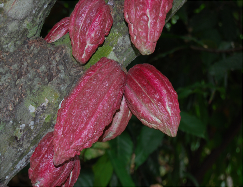 cabosse cacao cocoma